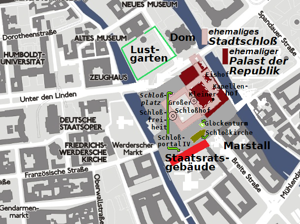 Map of Schloßplatz in Central-Berlin with Staatsratsgebäude